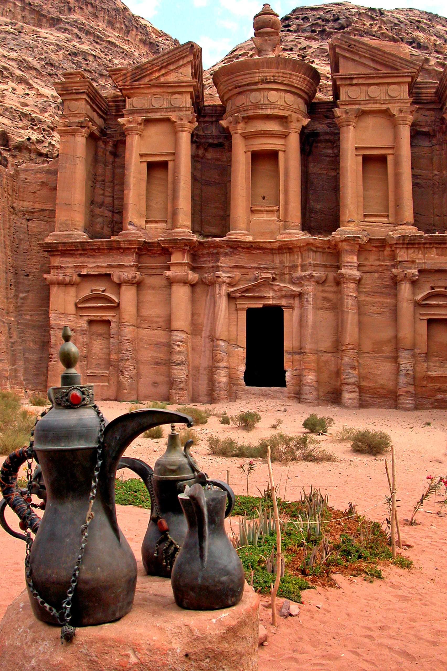 The Monastery (Al Dier), Petra, Jordan